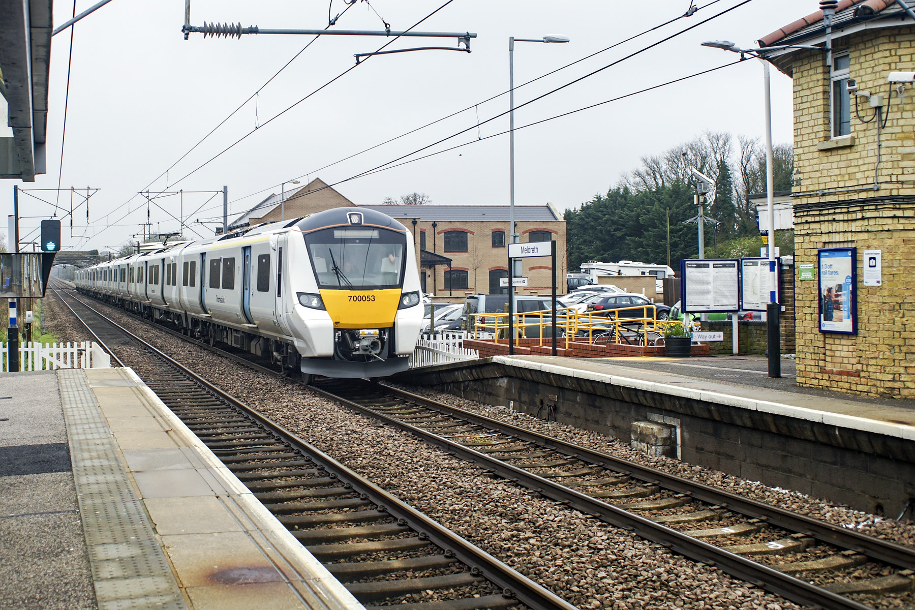 Bit out of touch with the UK rail scene but whilst waiting for the Foxton spoil train, what I believe, is the new order, 8 car 700 053, trundles through Meldreth on a test /driver training run towards Cambridge. I did later see a 12 car version but was too far way to get the unit number.